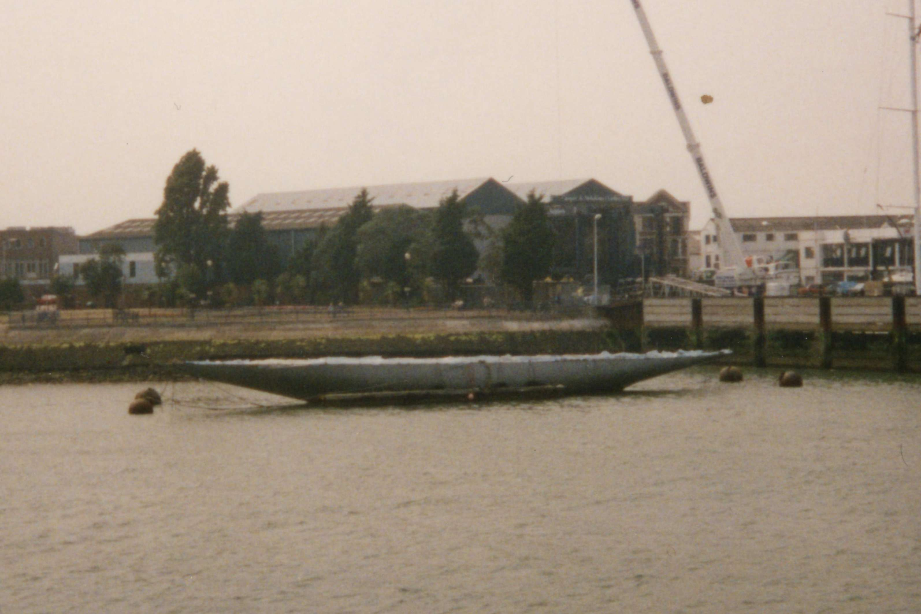 Yacht Velsheda at Camper & Nicholson